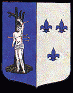 Coat of arms of Sevenum